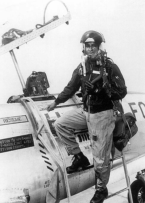 None.